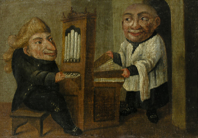 Organist und Mesner (oil on canvas, 39 x 55 cm)